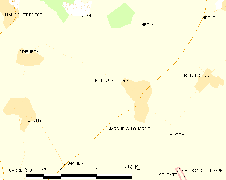 Map of French municipality Rethonvillers